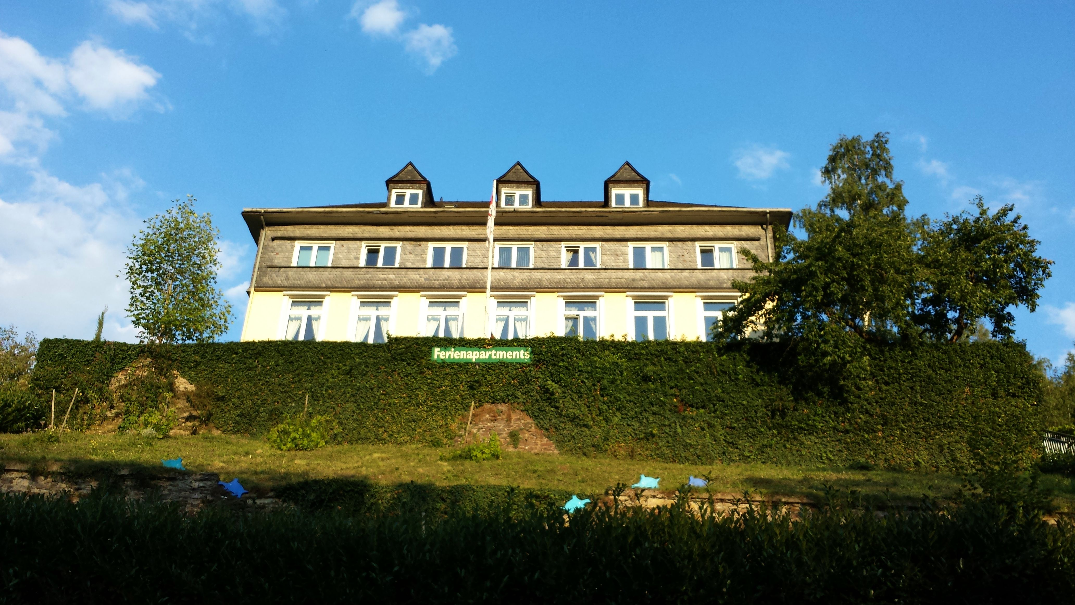 Old Winegrowerschool in Cond built 1928-1929